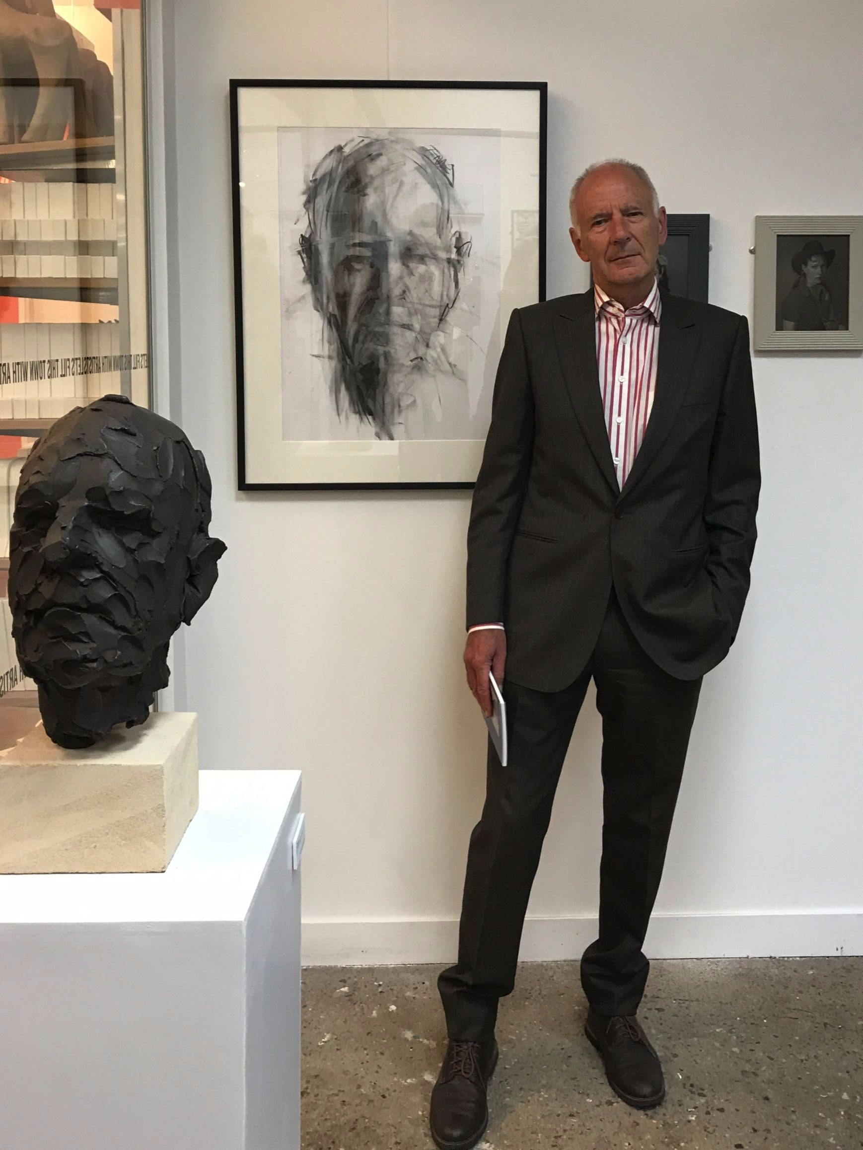 Michael Allingham with bronze and charcoal